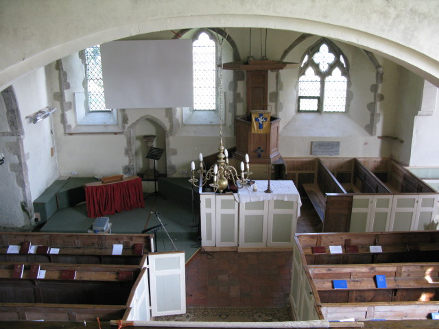 Interior view of St Mary's church, Stelling Taken from the small balcony.